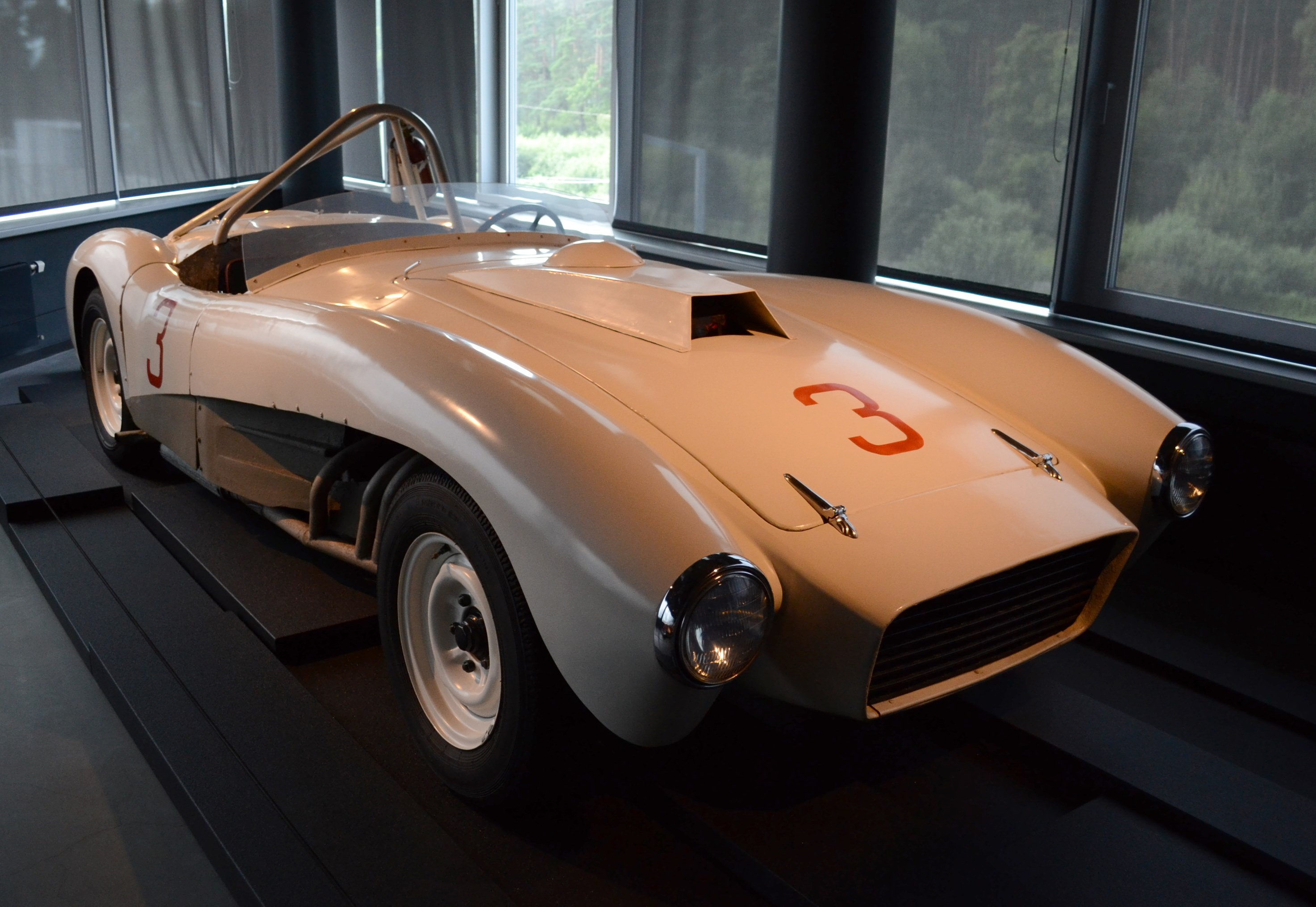 ZIL-112S racing car at Riga Motor Museum